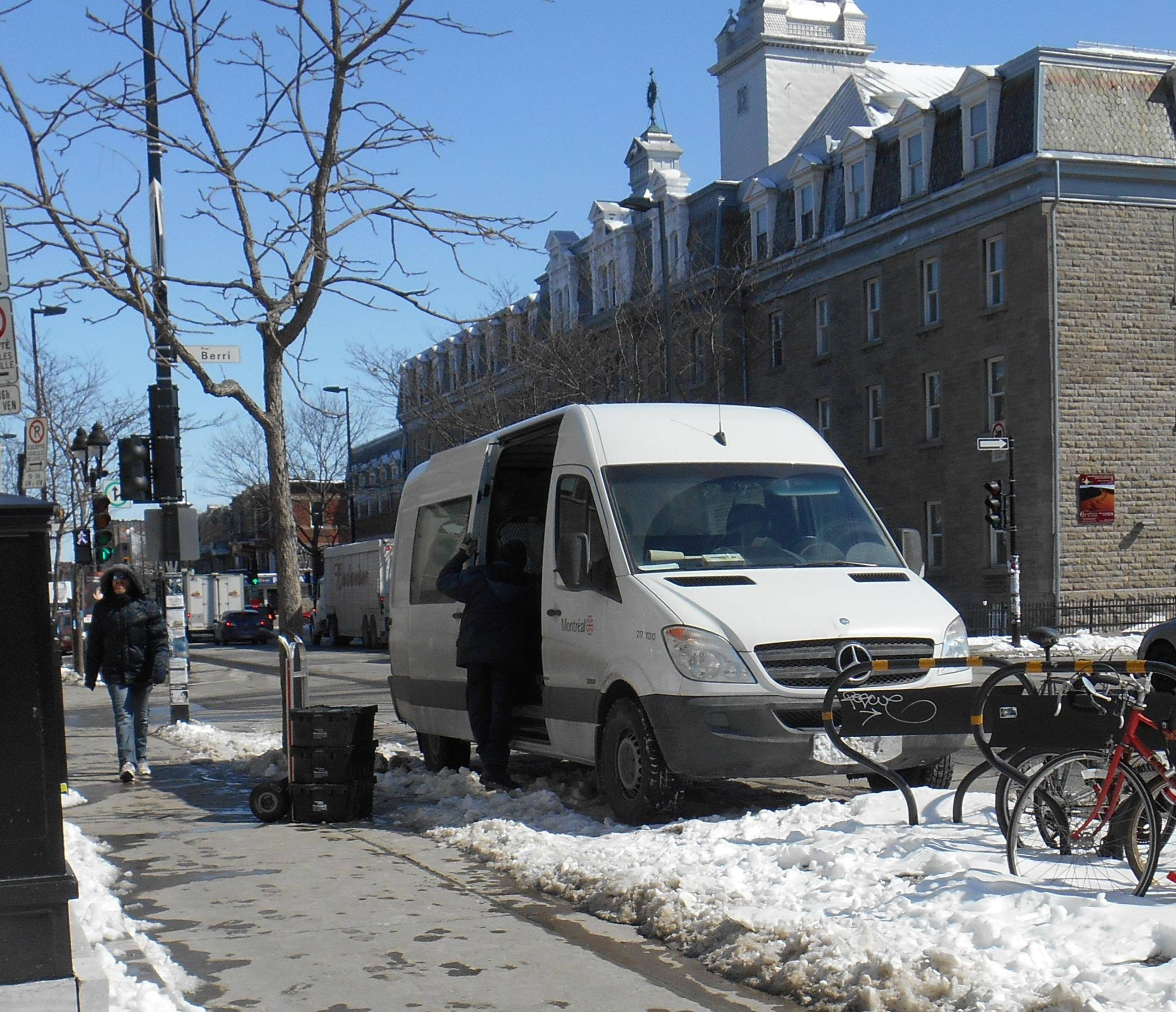 A vehicle that travels between various Montreal municipal libraries. A patron may borrow a book from this van and return the book at another library.